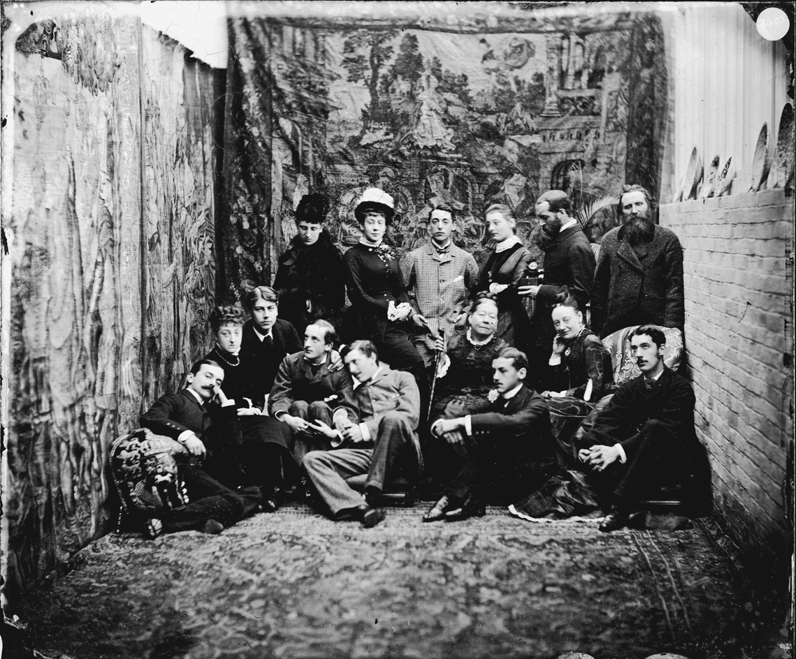 Black-and-white photographic portrait of guests at Hardwick House, near Bury St Edmunds, Suffolk, home of the Cullum Baronets. Photograph courtesy of the Spanton-Jarman Collection, Bury St Edmunds Past and Present Society.